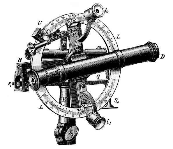 hypsometer